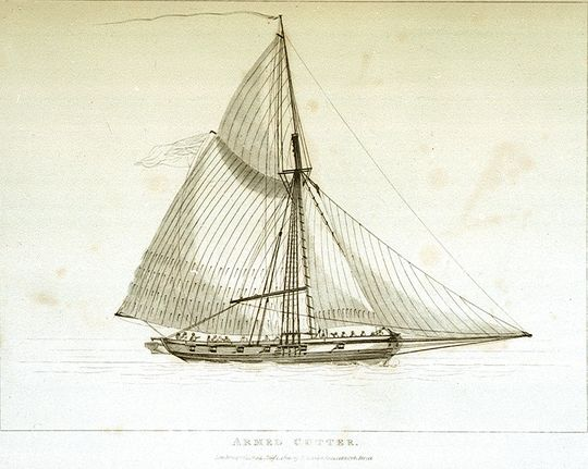 Etching of an armed cutter, 204mm x 265mm